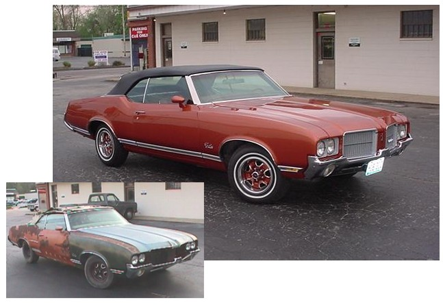 Before and after images of auto restoration. I am the author of both photos. The "after" image appears on the Wiki "Oldsmobile Cutlass" page.